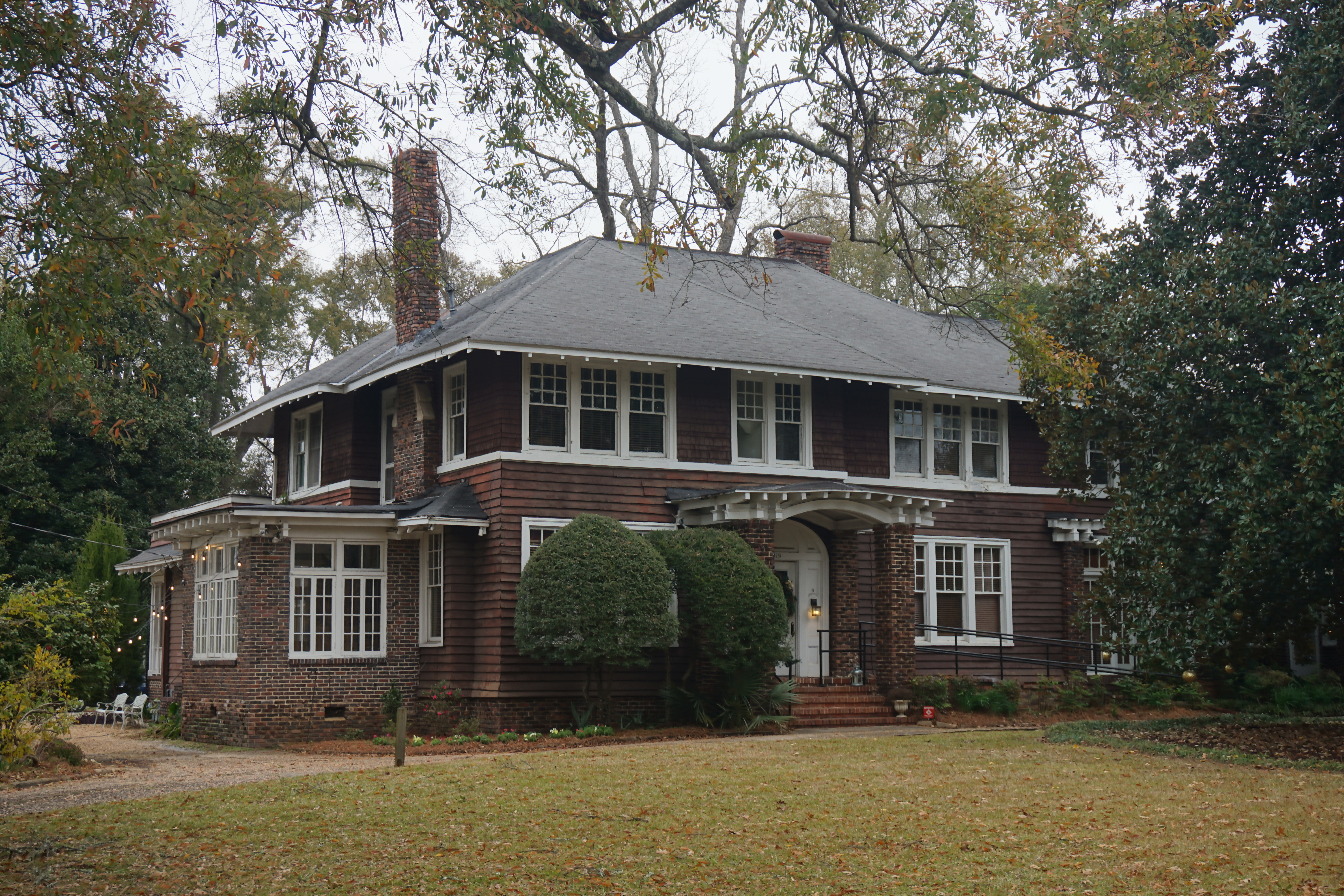 The F. Scott and Zelda Fitzgerald Museum in Montgomery, Alabama (United States).